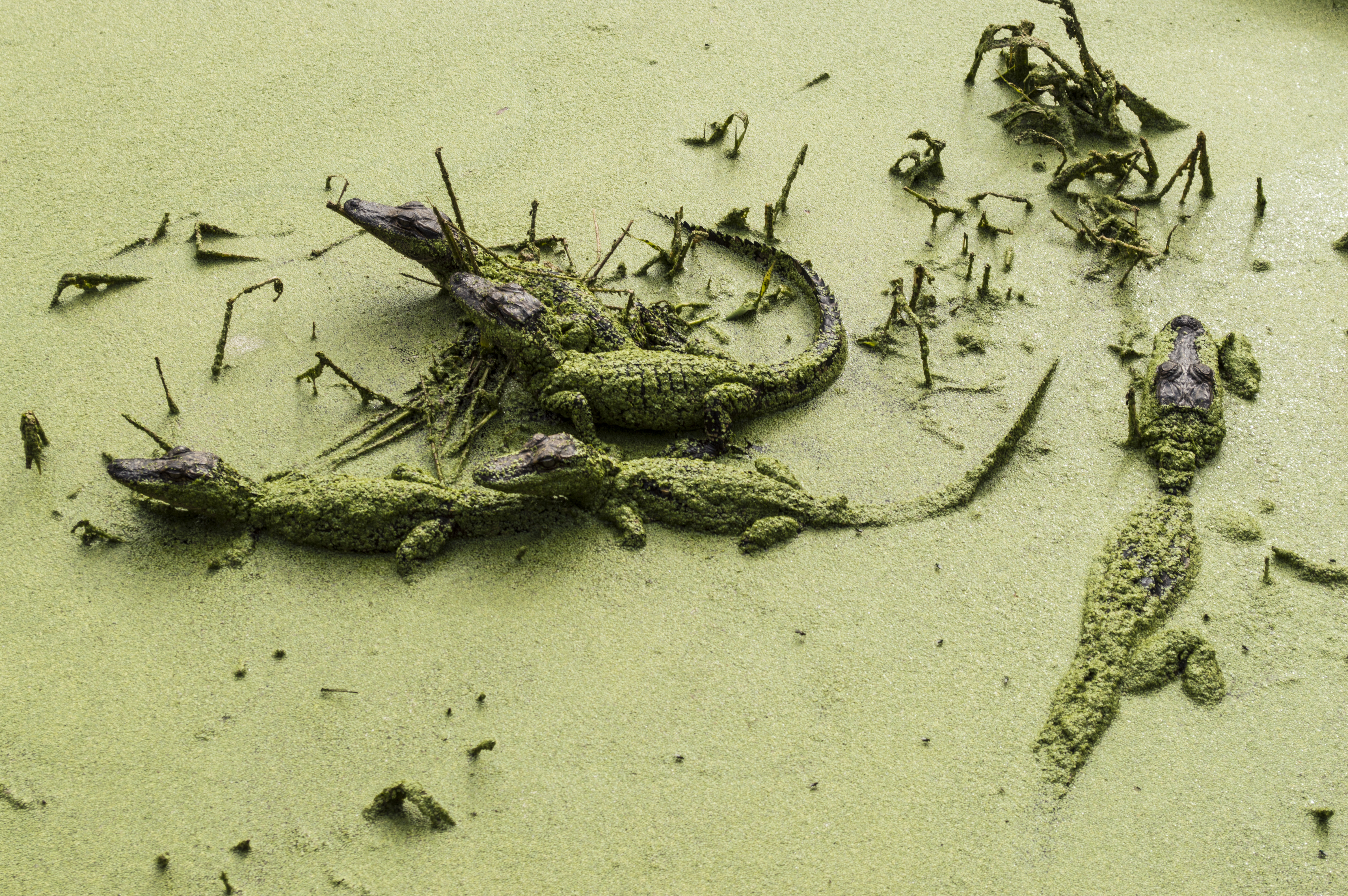 Baby gators sunning in duck grass after a cold December night in Stephen C. Foster State Park.